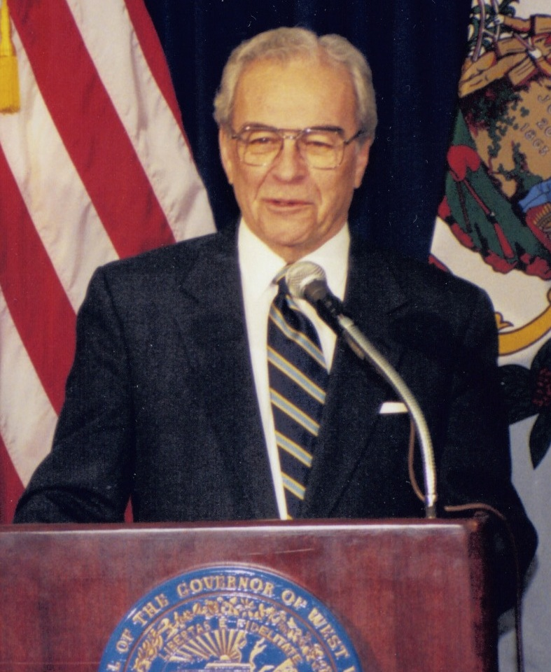 With Rockefeller, expansion announcement in 1998